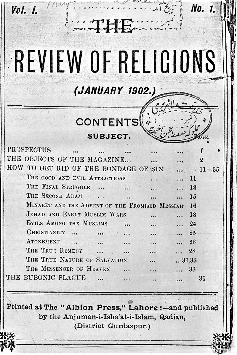 Front cover of the first edition of The Review of Religions magazine